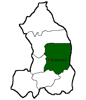 Sketch map of Eastern Province Rwanda, showing the district and town of Kayonza.